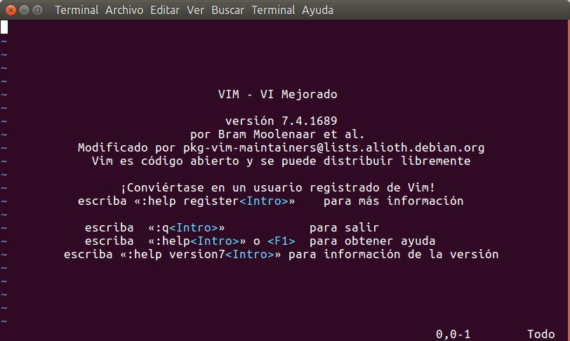 Vim version 7.4.1689 running on GNU Linux Ubuntu 16.04